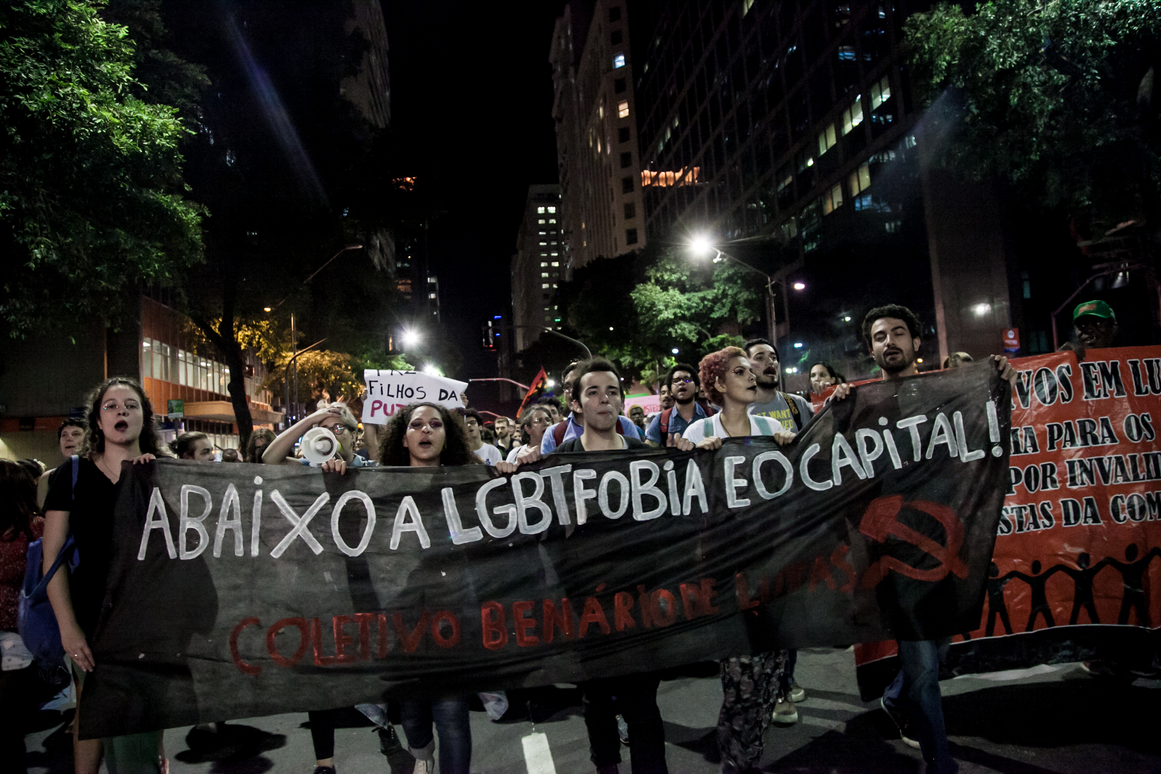 Após o atentado terrorista contra dezenas de gays e lésbicas em Orlando, EUA, viu-se a mobilização de forças fascistas no Brasil e no mundo que apoiaram o atentado ou utilizaram o fato para perseguir a população mulçumana com ataques xenófobos. Convocamos o povo para ir as ruas em defesa dos nossos direitos, e mais importante, em defesa de nossas vidas. Cresce no Brasil o número de ataques conservadores nas ruas e na política e a necessidade de resistência das minorias. Por essa razão, o Coletivo Benário de Lutas convida todas as organizações e independentes para contruir um ato contra a homofobia e lesbofobia com base internacionalista. Pelos direitos e as vidas de todos nós. Pelo fim da discriminação contra as e os trabalhadores homossexuais. Pela queda de políticos que nos matam todos os dias com seu discurso de ódio, fora Bancada Evangélica, família Bolsonaro, Cunha e Feliciano! Tirem seu fanatismo religioso de nossos direitos, não passarão! Pedimos que todas e todos ajudem na divugação do evento para garantir o máximo de visibilidade, convide seus amigos, camaradas e organizações para lutar contra o ódio.